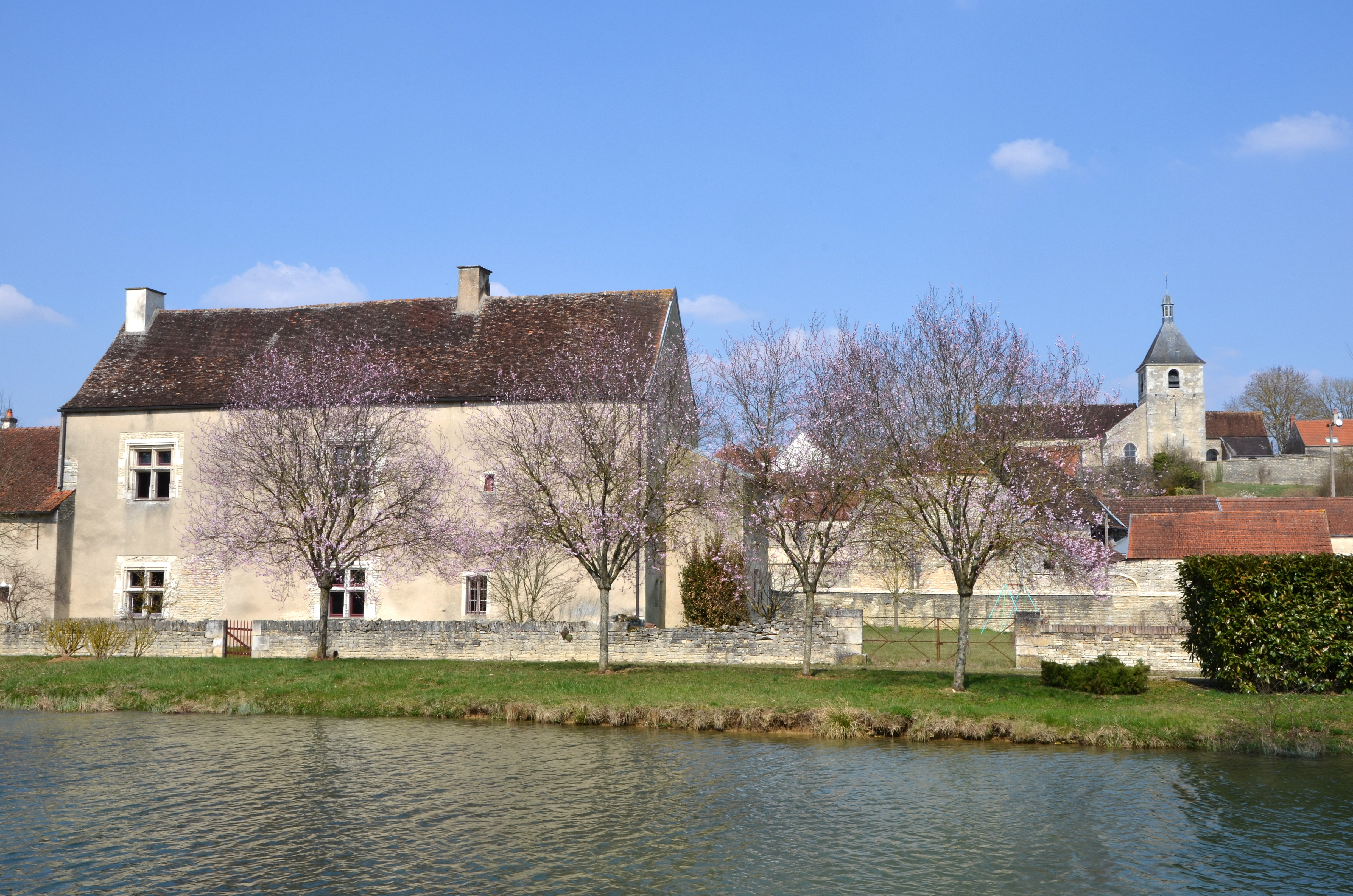 The canal of Burgundy at Saint Vinnemer, Bourgogne, France